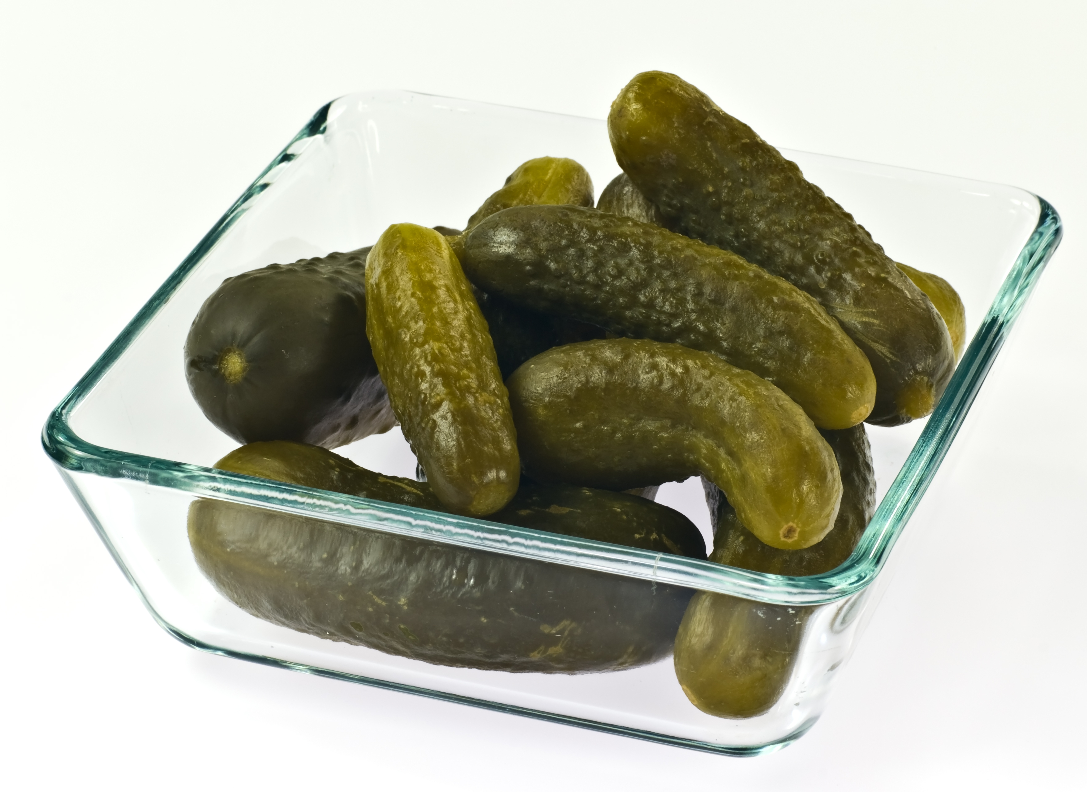 Polish style pickled cucumbers